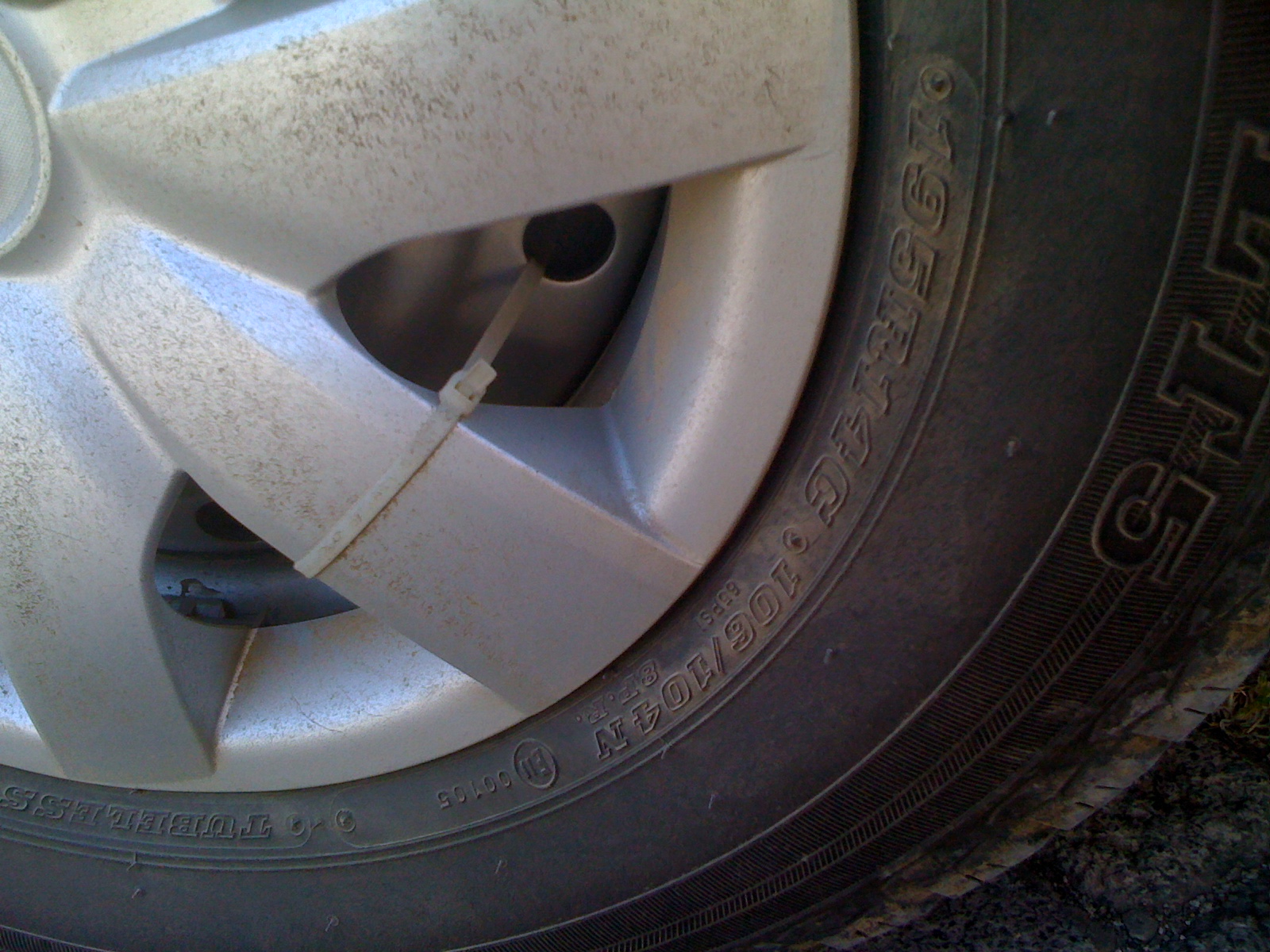 Plastic wheelcover with a cable tie to help prevent its accidental detachment from the vehicle's steel road wheel. Picture taken in Costa Rica.